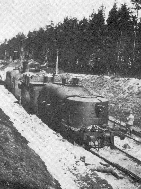 Tank train of the Red Guards in the Finnish civil war 1918.